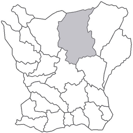 Map describing the location of Göinge Western Hundred in the province of Skåne, Sweden.